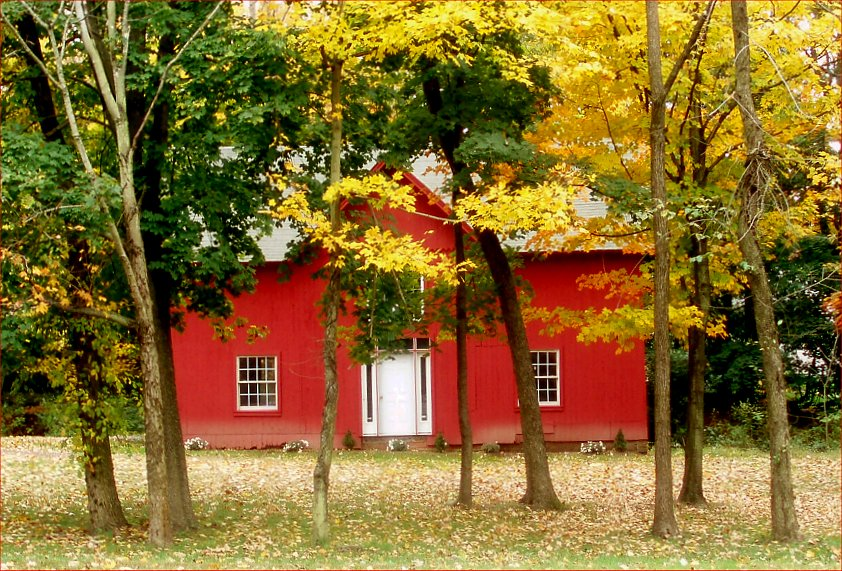 Barn on Dixwell Avenue